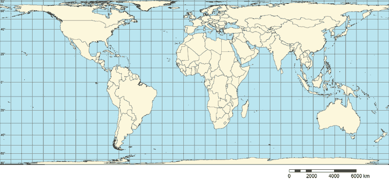 Political map of World in Behrmann projection